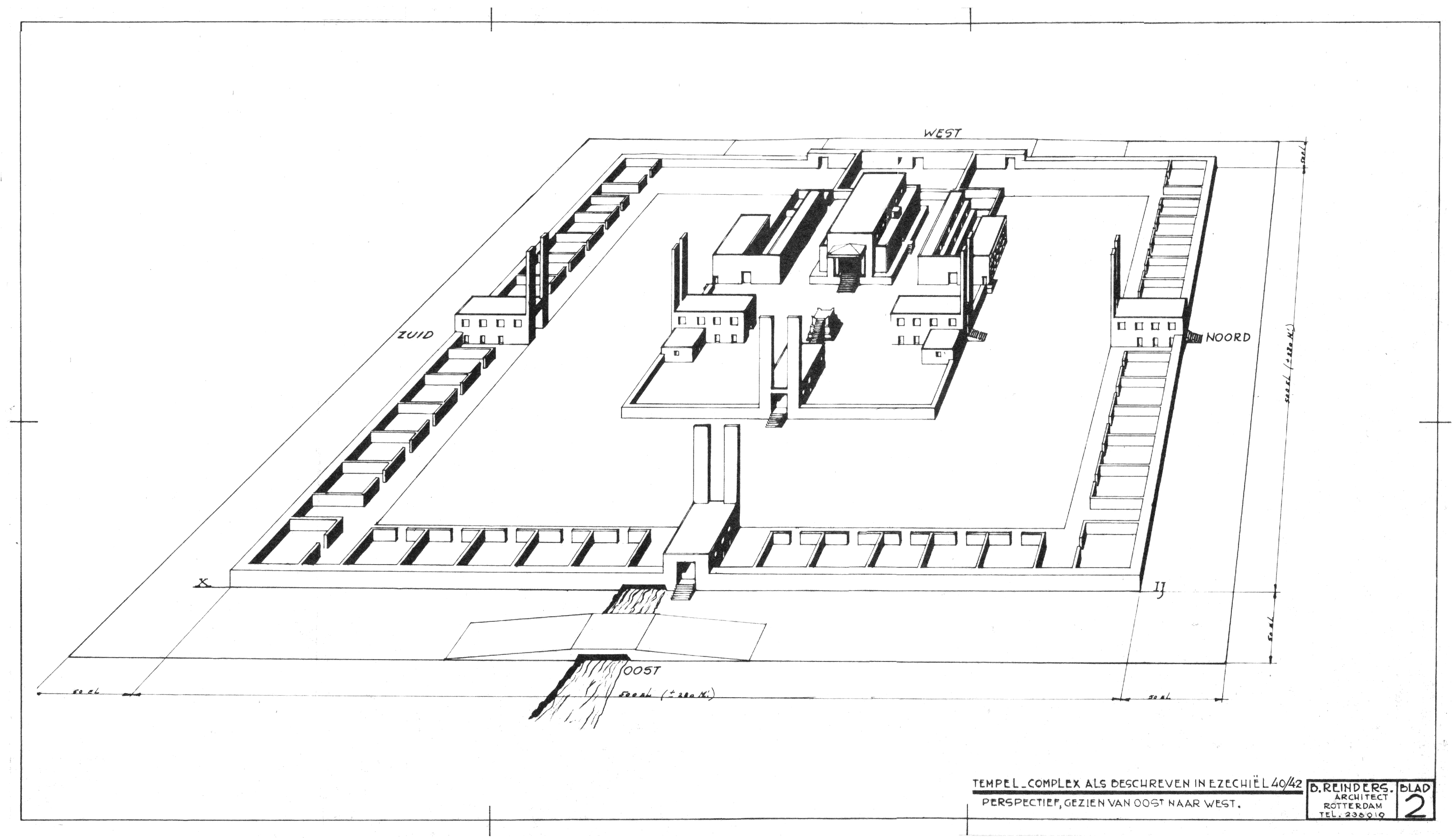 View of Ezekiel's Visionary Temple, as described in the Book of Ezekiel, chapters 40-42, drawn as literally as possible by dutch architect Bartelmeüs Reinders Sr. (1893-1979)